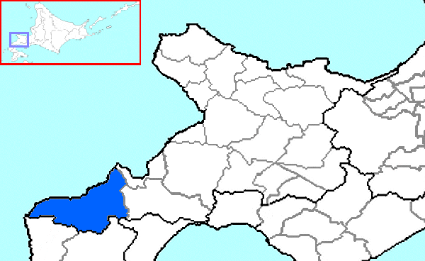 The location of Shimamaki in Shiribeshi Subprefecture, Hokkaido Prefecture, Japan.